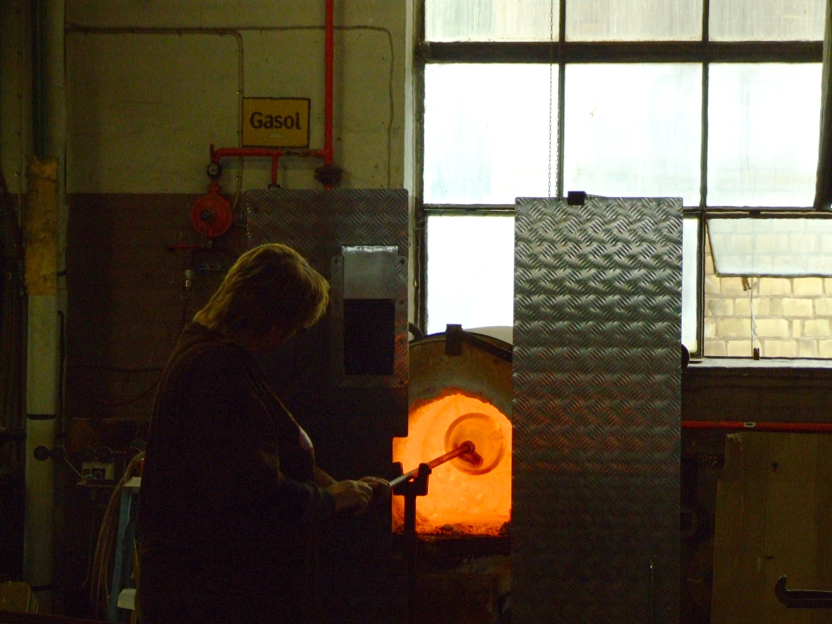 Or, rather, glass forming in Lindshammar.